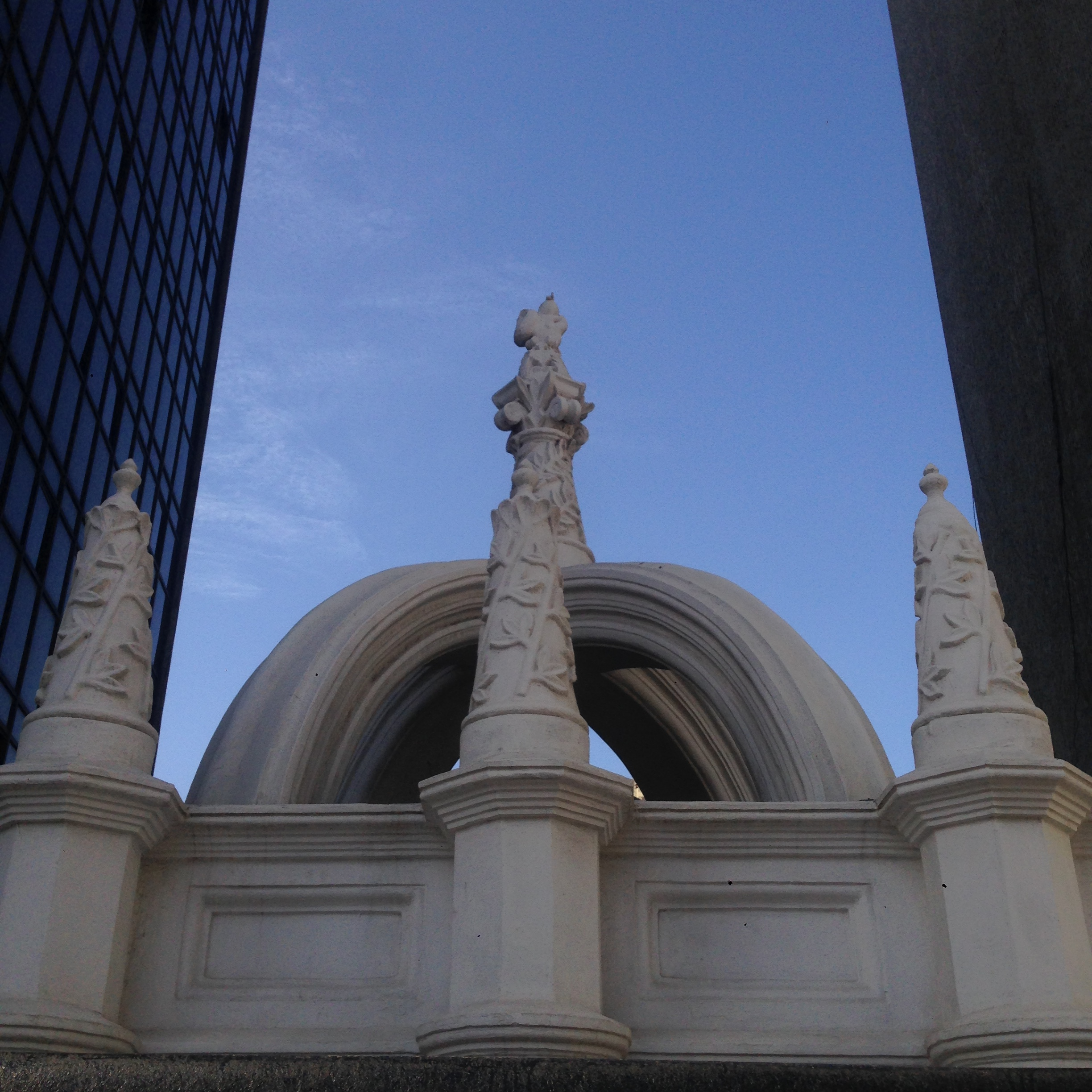 Cenotaph at Broad Street